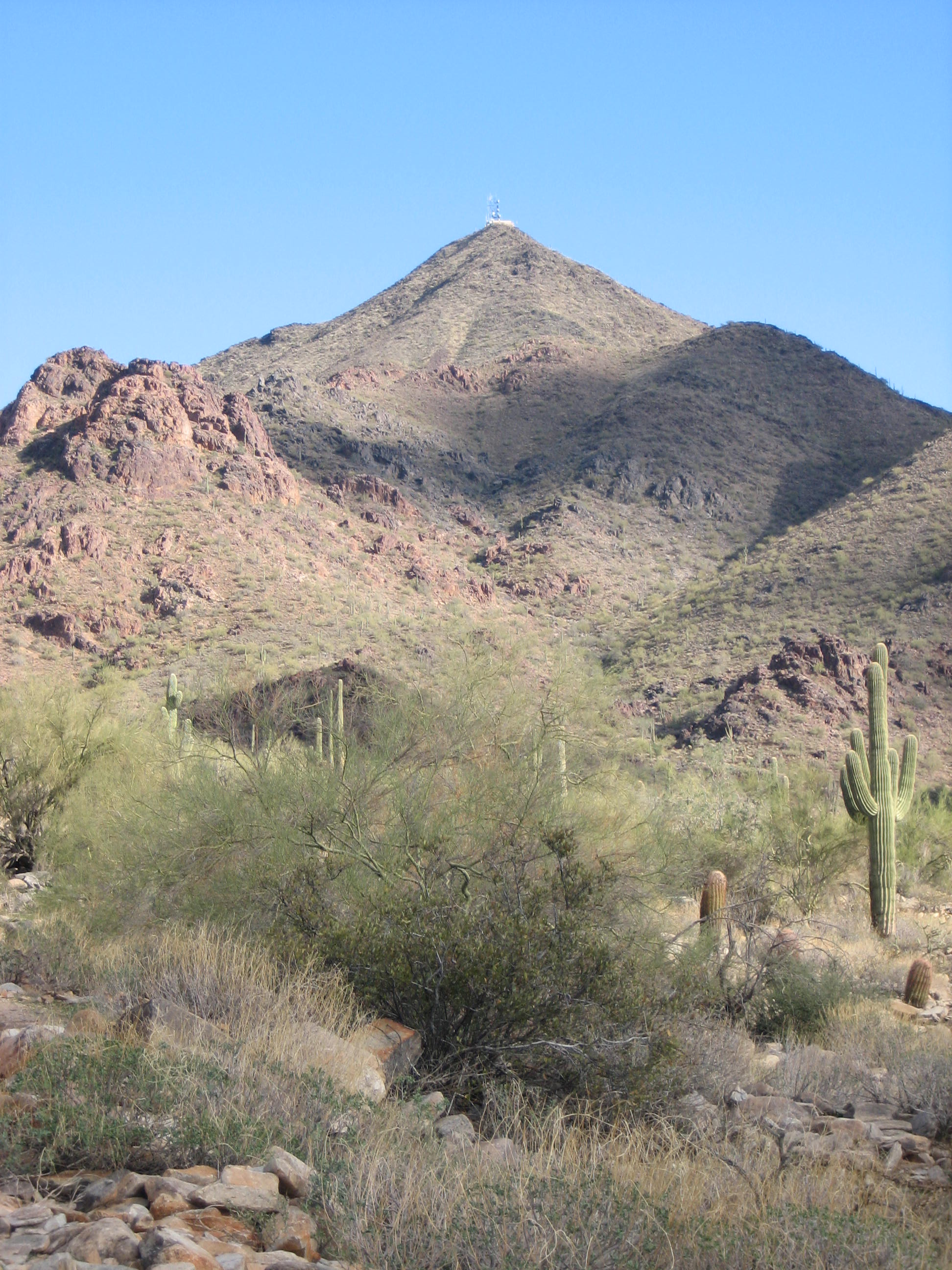 Thompson Peak2, McDowell Mountains